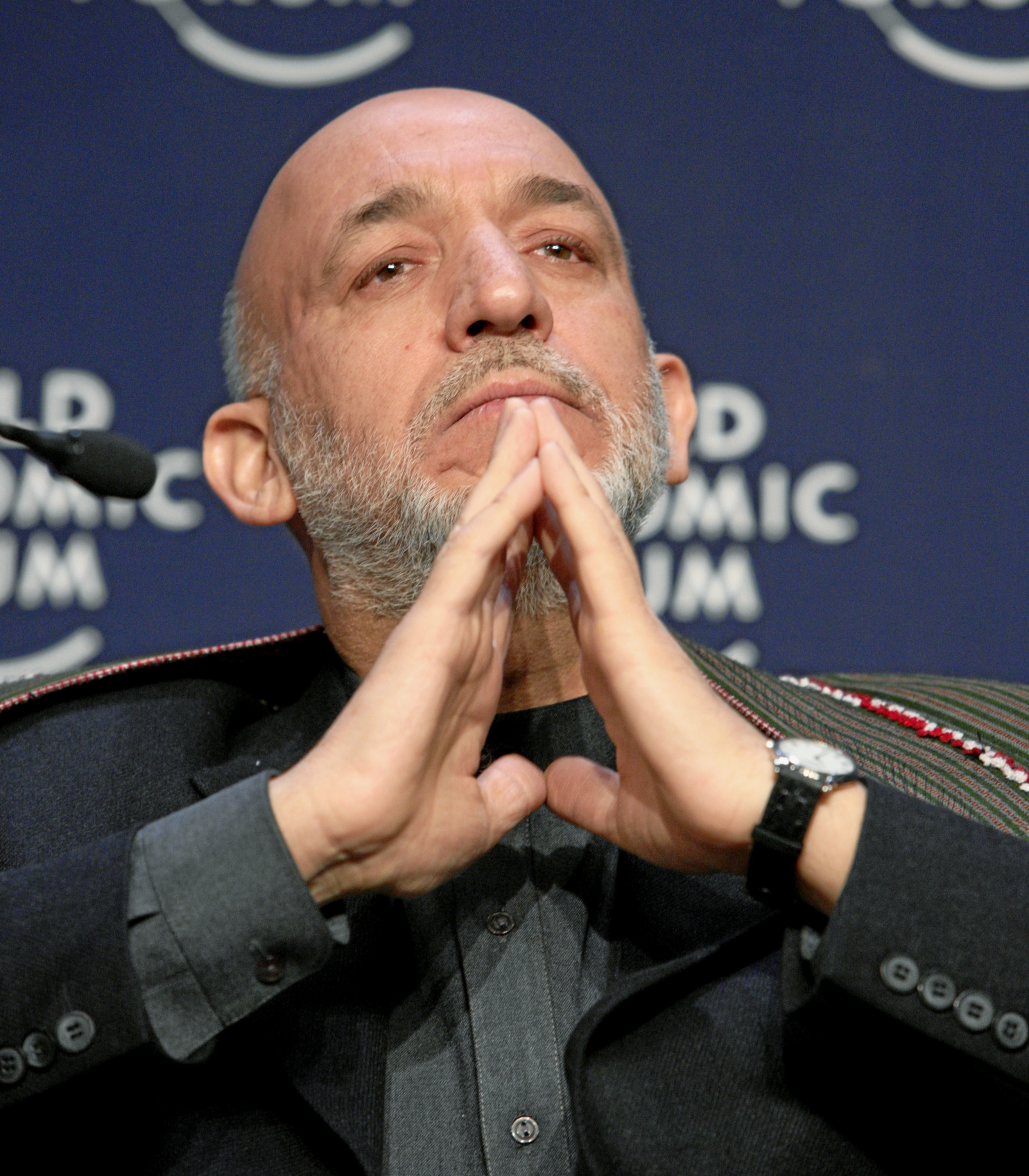 DAVOS/SWITZERLAND, 24JAN08 - Hamid Karzai, President of Afghanistan captured during the session 'The Quest for Peace and Stability' at the Annual Meeting 2008 of the World Economic Forum in Davos, Switzerland, January 24, 2008. Copyright World Economic Forum ( by Andy Mettler